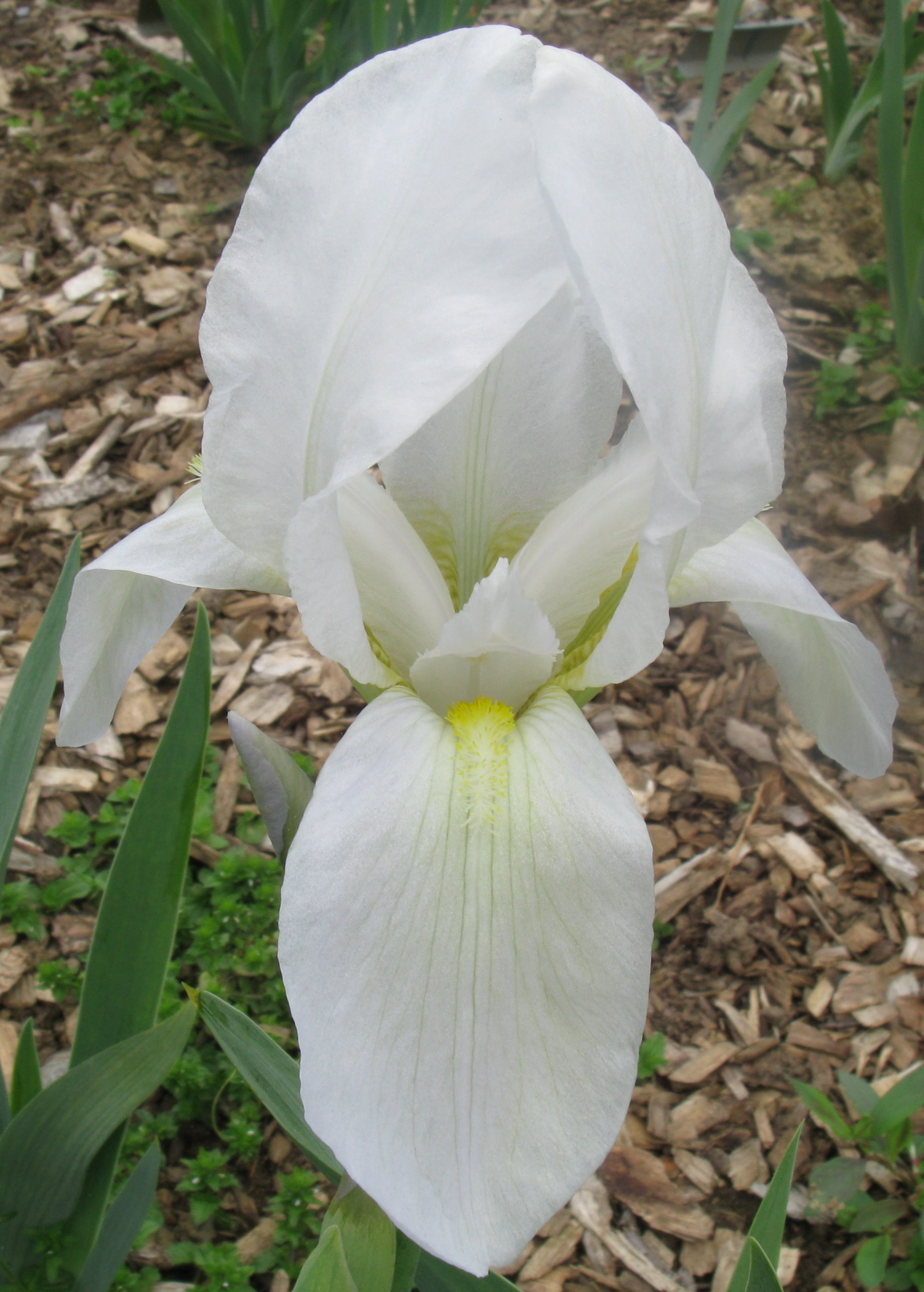 Iris albicans